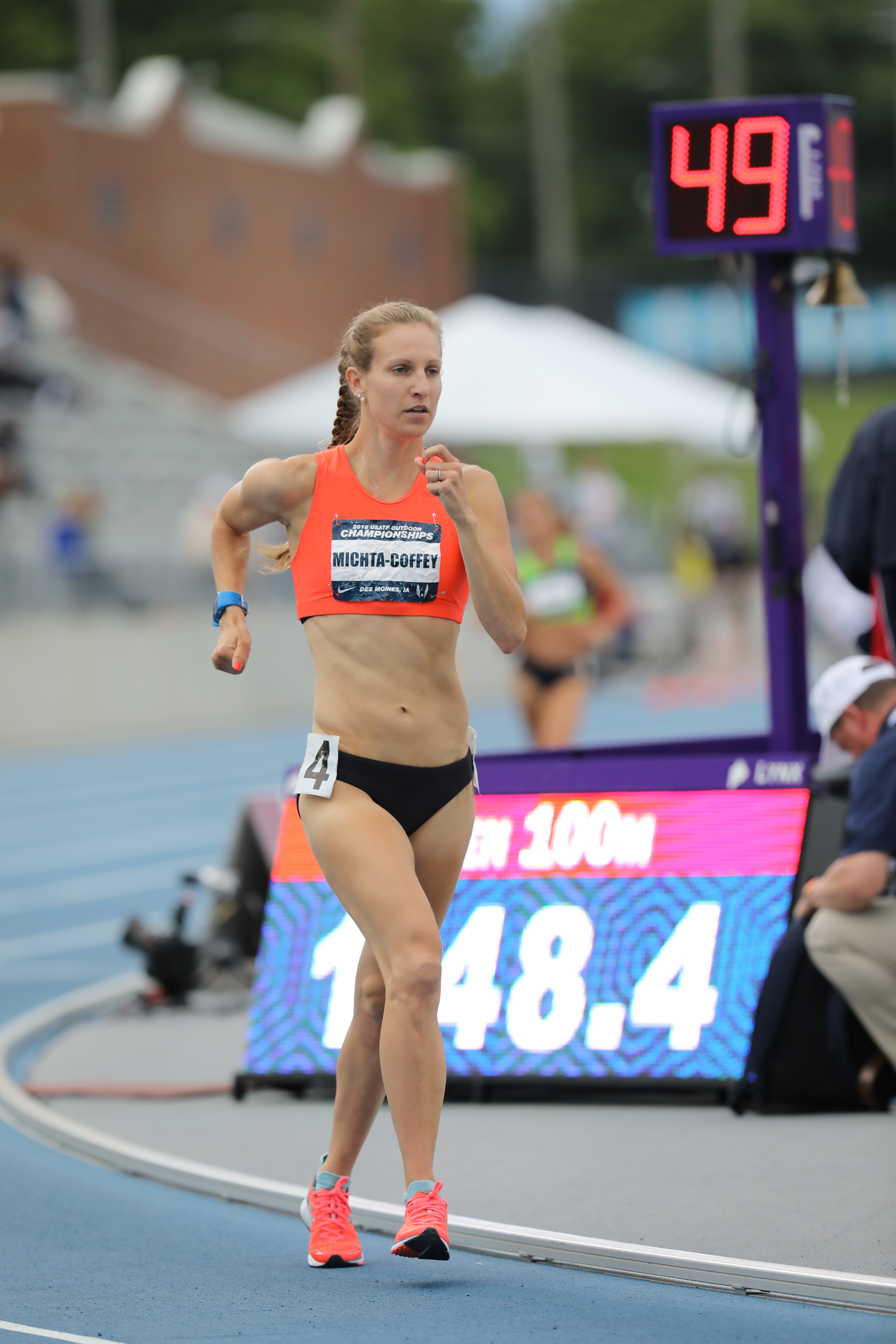 2018 USA Outdoor Track and Field Championships – 20,000 meters racewalk